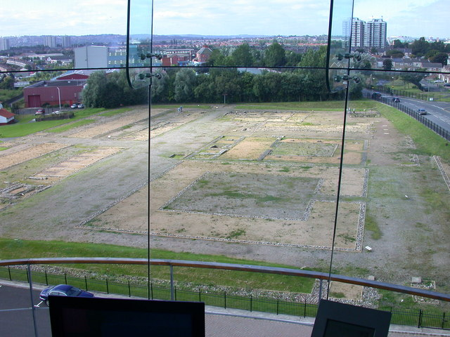 Segedunum Roman fort. The view from the 52977